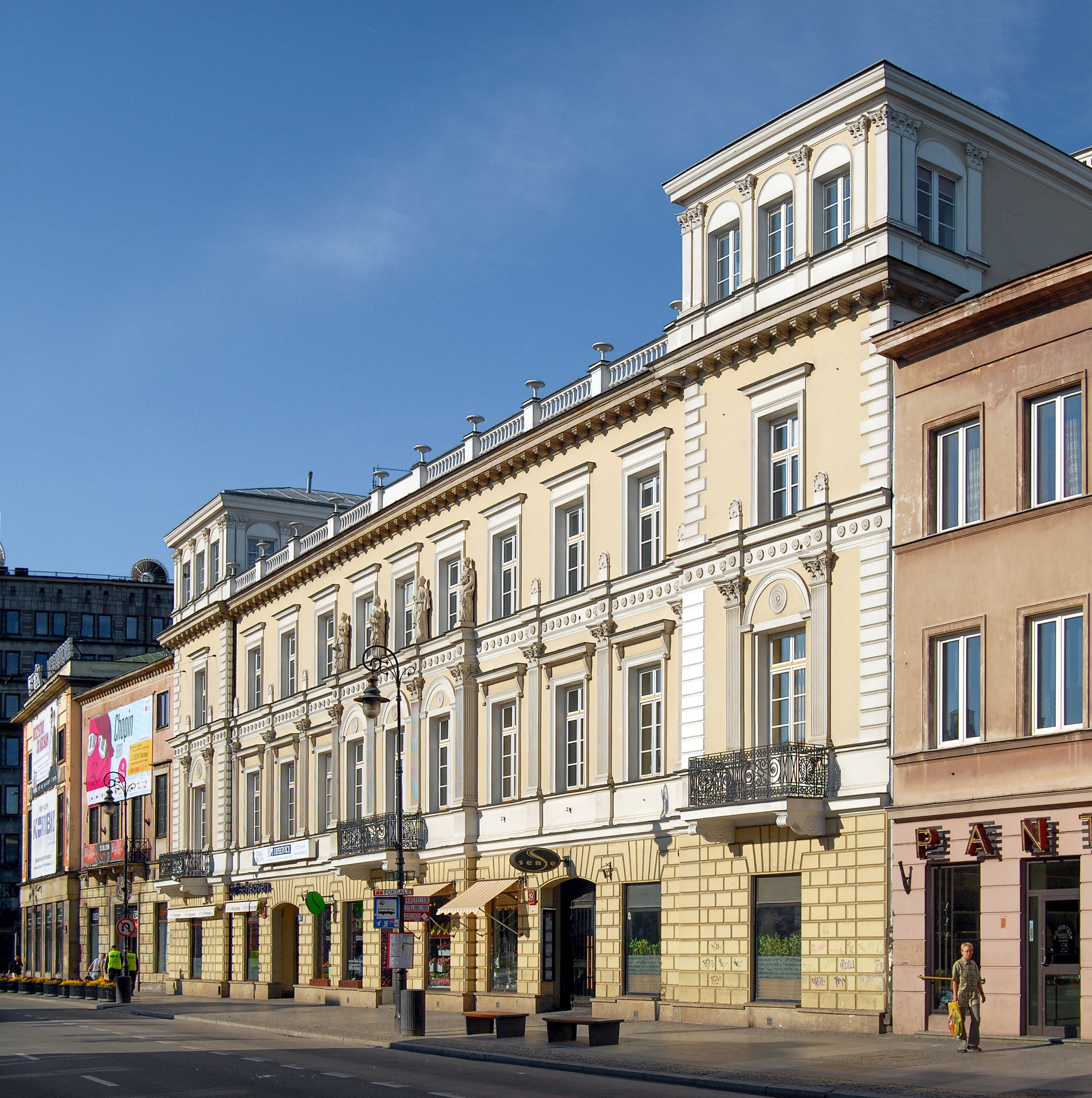 Kossakowskich Palace, Warsaw, Poland.